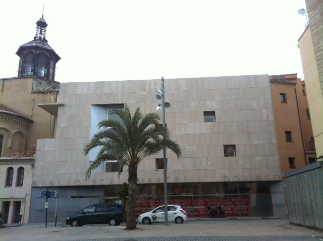 Marcel·lí Domingo Library in Tortosa